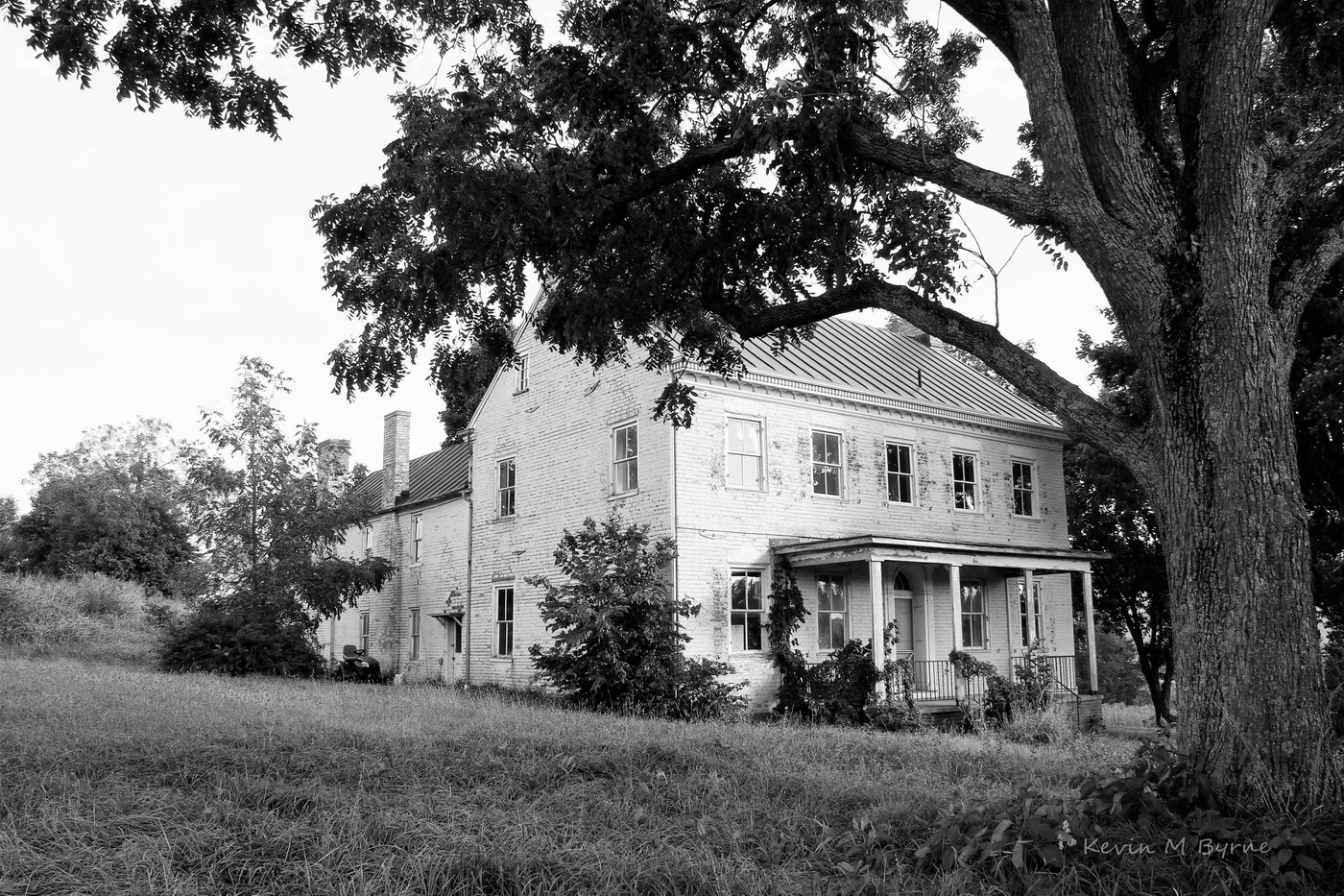 Lincoln Homestead and Cemetery, South of the junction of VA 684 and 42 Broadway